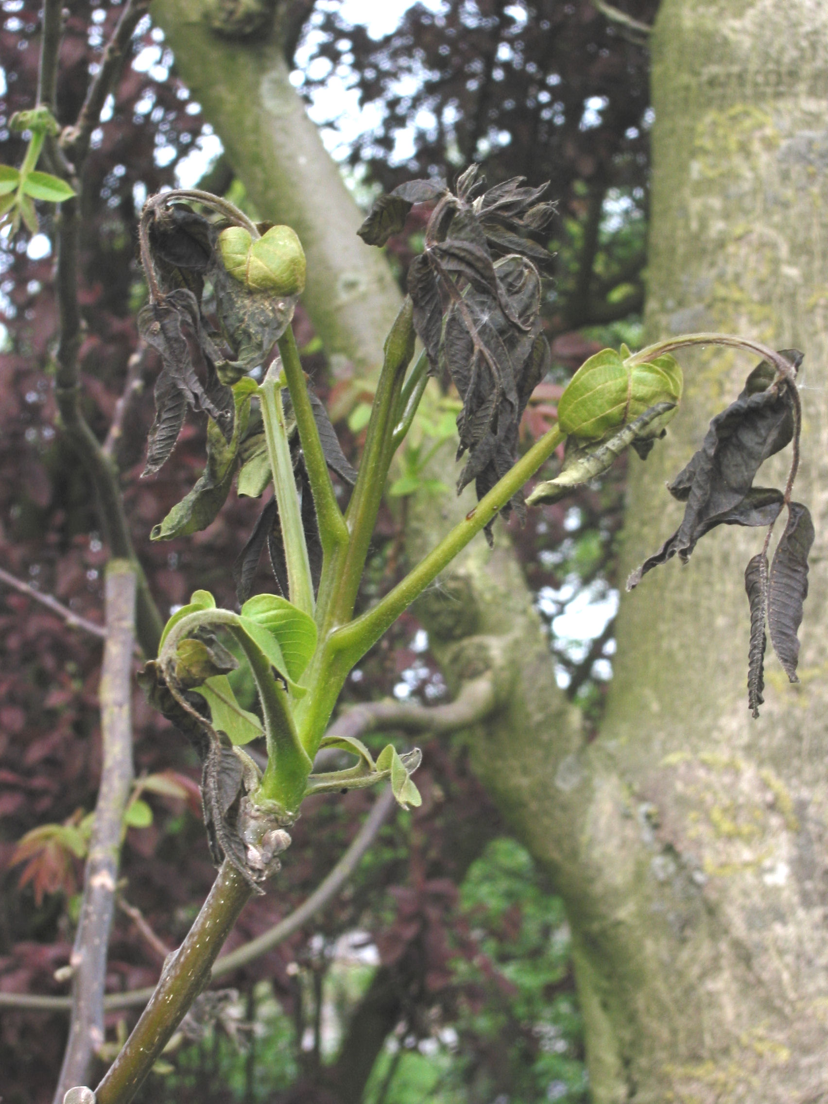 Juglans regia frost damage